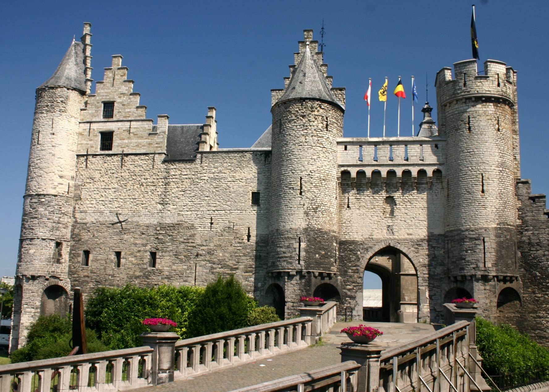 The Steen - medival fortress in Antwerp (Belgium).